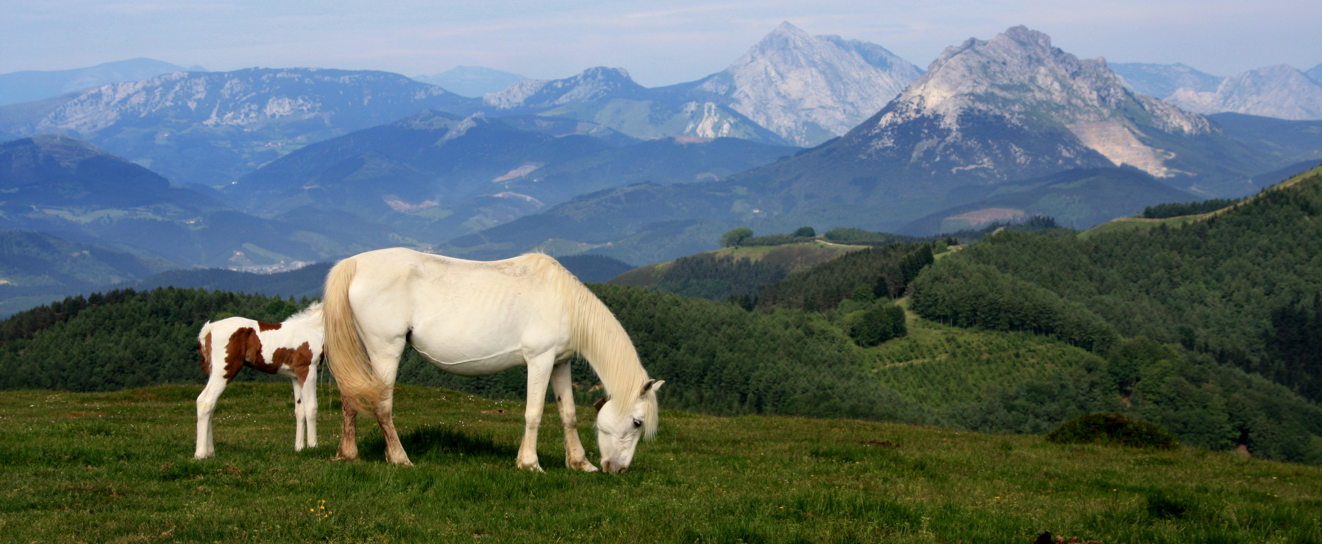 Mountains in the border of Bizkaia (Biscay) and Gipuzkoa